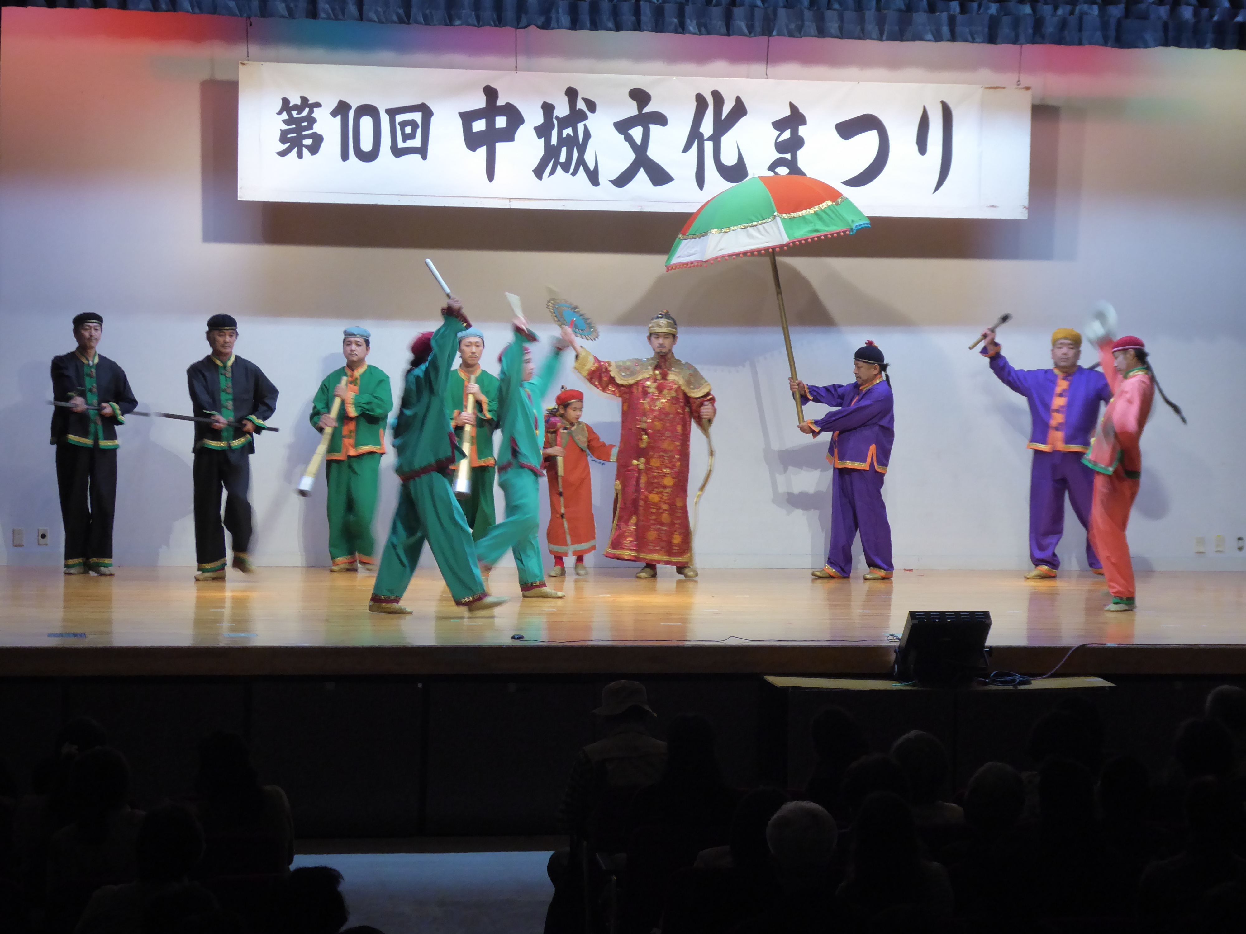 Photo taken at the Nakagusuku Cultural Festival, 2017. Courtesy of Rob Kajiwara.